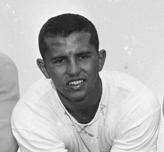 Left to right BC Lions football players, Don Vicic, Ron 'Toppy' Vann and Paul Cameron VPL Accession Number: 59736 Date: July 20, 1957 Photographer/Studio: Province Newspaper Cunningham, William Topic: Football players Portraits, Group Person: Vicic, Don Vann, Ron 'Toppy' Cameron, Paul Organization: B.C. Lions Football Club Location: British Columbia More information on our historical photograph collection